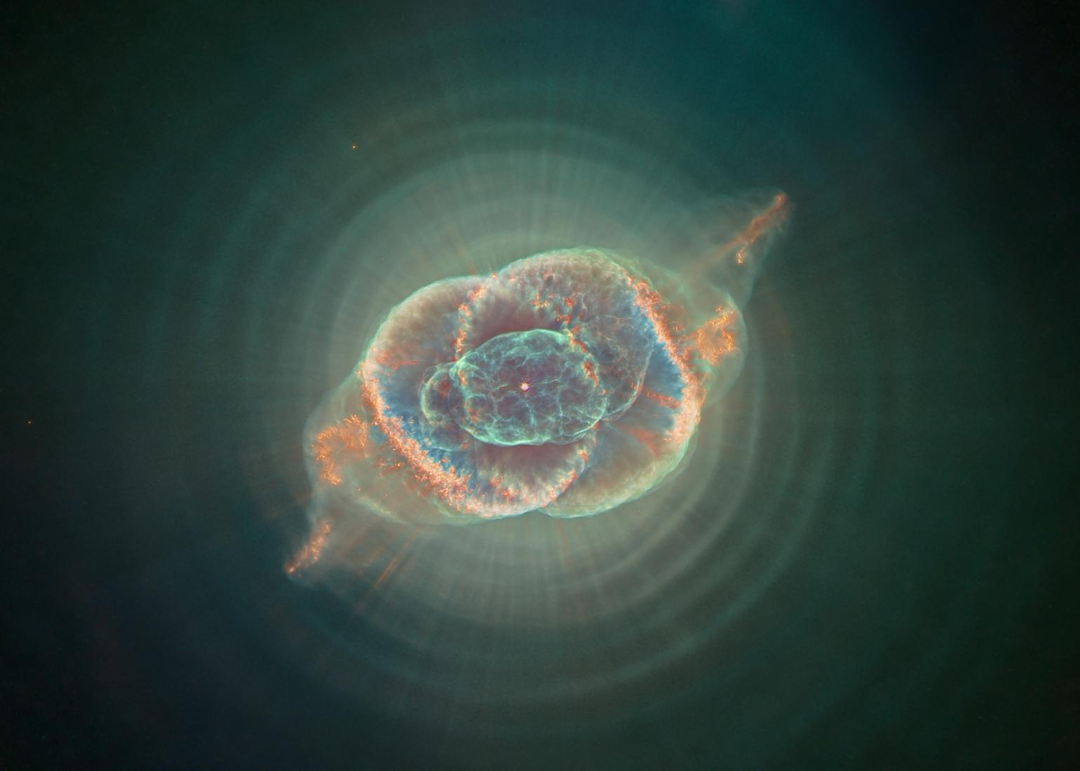 Staring across interstellar space, the alluring Cat's Eye Nebula lies 3,000 light-years from Earth. The Cat's Eye (NGC 6543) represents a brief, yet glorious, phase in the life of a sun-like star. This nebula's dying central star may have produced the simple, outer pattern of dusty concentric shells by shrugging off outer layers in a series of regular convulsions. But the formation of the beautiful, more complex inner structures is not well understood. Here, Hubble Space Telescope archival image data have been reprocessed to create another look at the cosmic cat's eye. Compared to well-known Hubble pictures, the alternative processing strives to sharpen and improve the visibility of details in light and dark areas of the nebula and also applies a more complex color palette. Of course, gazing into the Cat's Eye, astronomers may well be seeing the fate of our sun, destined to enter its own planetary nebula phase of evolution ... in about 5 billion years.